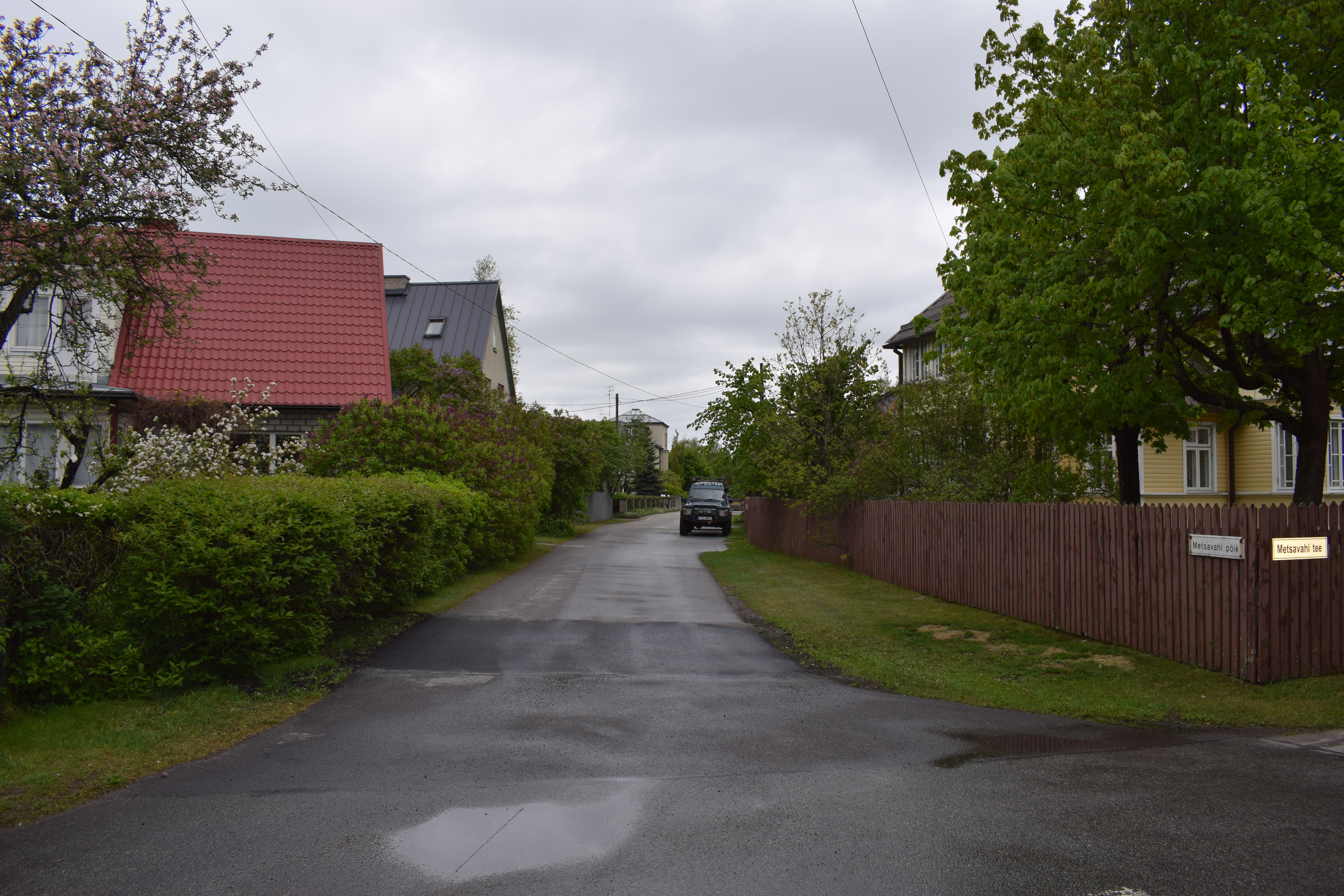 Metsavahi põik